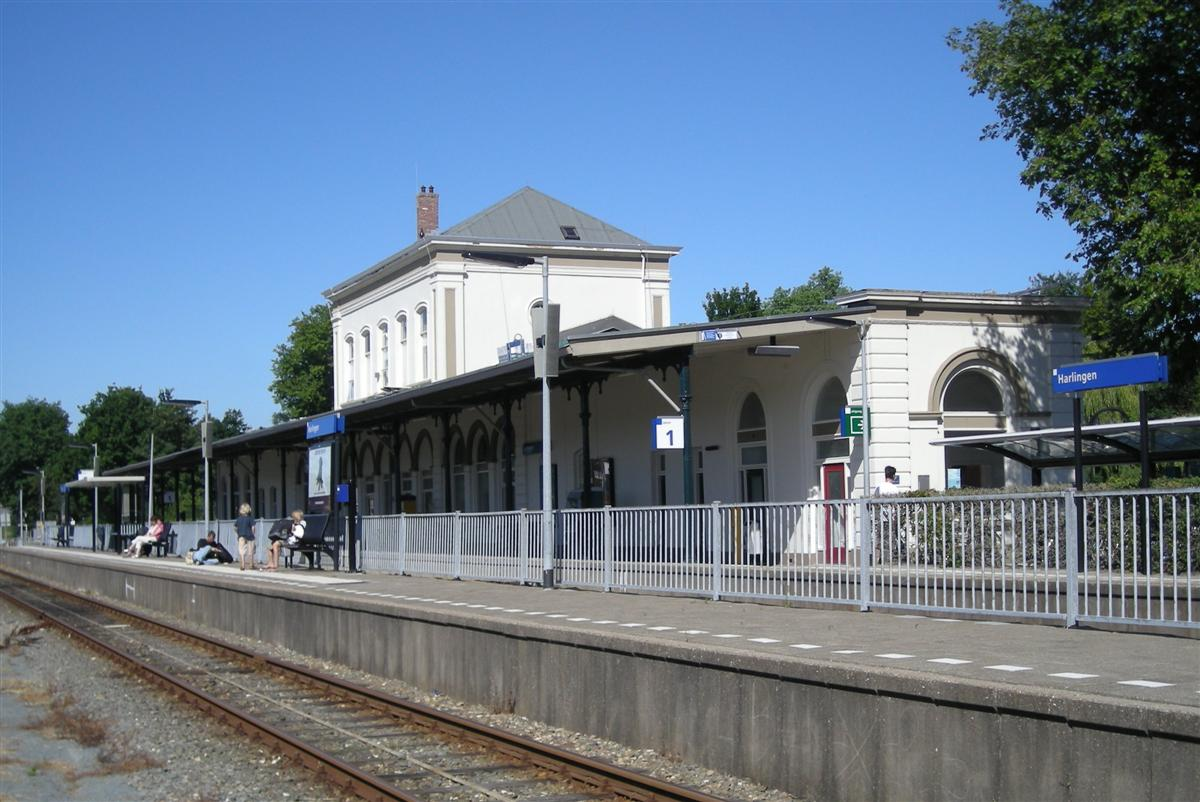 Station Harlingen, perron